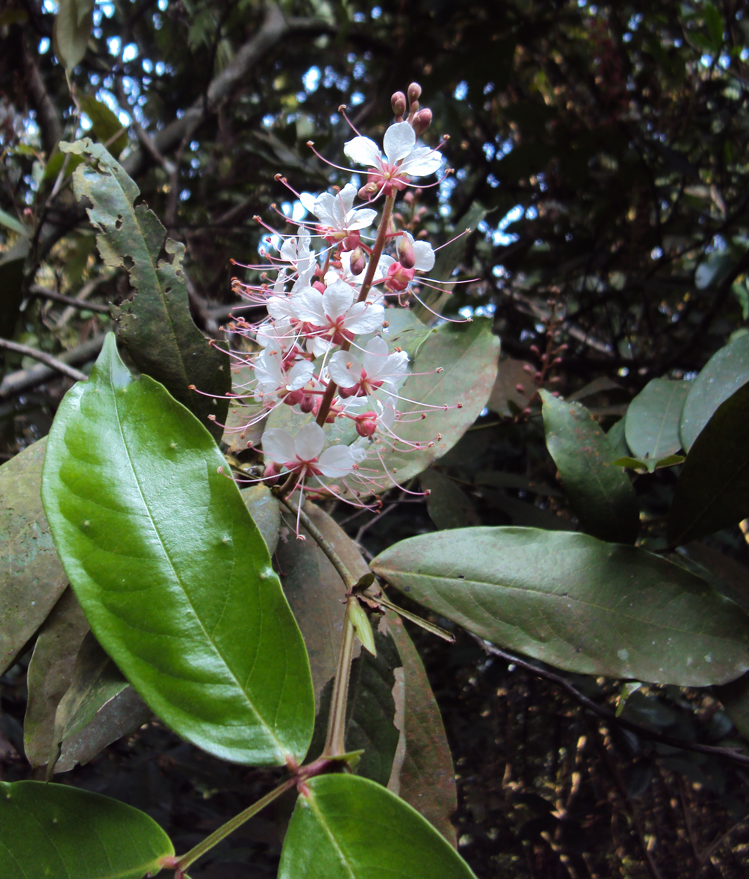 Humboldtia brunonis Wall.- Fabaceae - Caesalpinioideae - Common understorey tree in low elevation wet evergreen forests between 200 and 800 m. Endemic to the Western Ghats - between Wayanad and Sringeri Regions of Central Sahyadri.